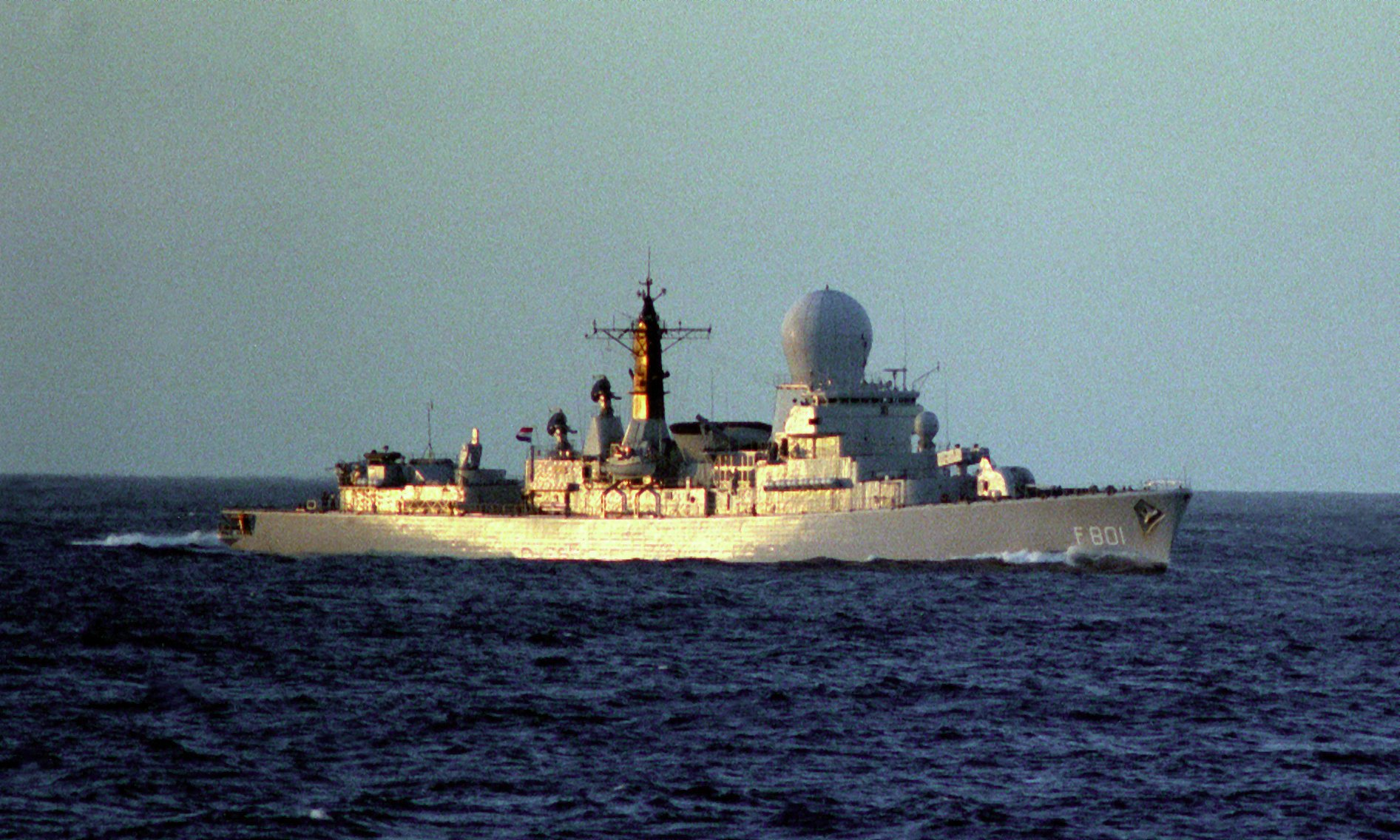 A starboard bow view of the Dutch frigate HNLMS TROMP (F-801) underway during exercise Ocean Safari '85.